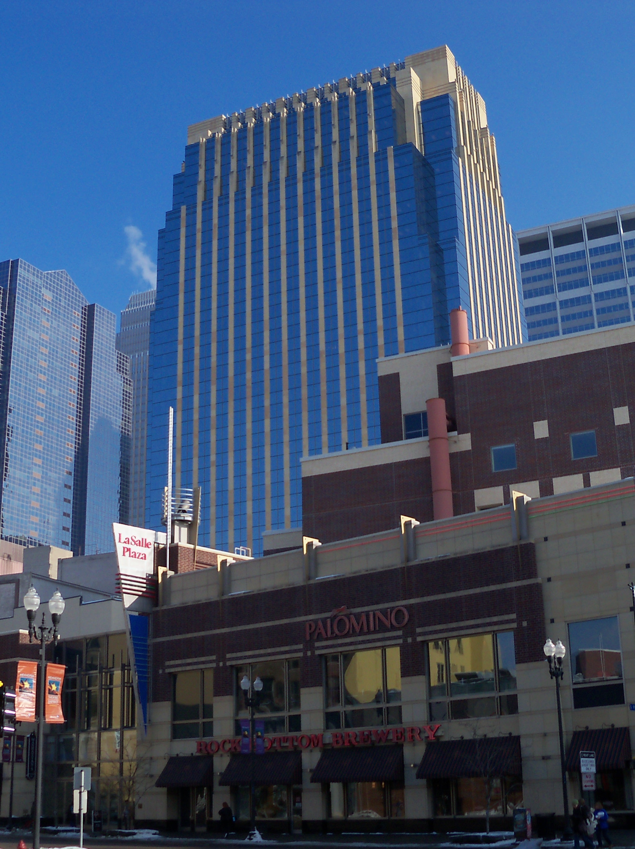 Hennepin Avenue entrance of LaSalle Plaza; tall blue and tan building in the background is also part of the plaza. Located in Minneapolis, Minnesota, USA.